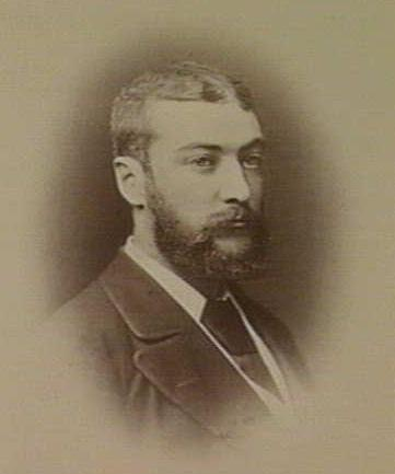 1874. Bust, to left. Photograph : albumen silver cabinet